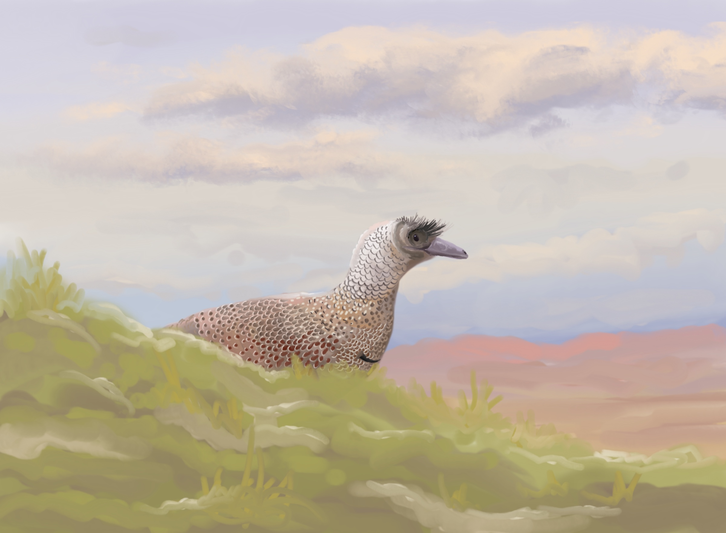 A reconstruction of Parvicursor sitting on a nest